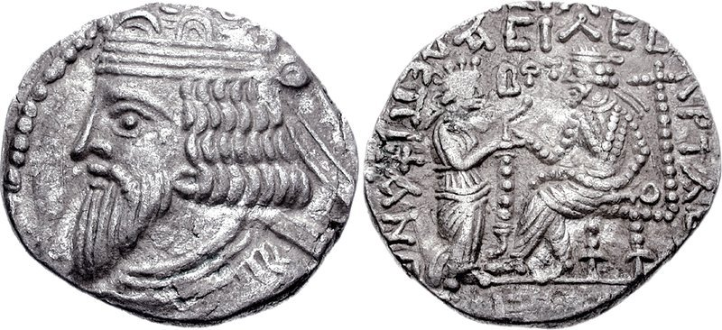 Coin of Artabanus IV of Parthia.